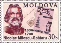 A stamp of Moldavia, Nicolae Milescu-Spătaru, Portrait of the writer (1636-1708), 2002